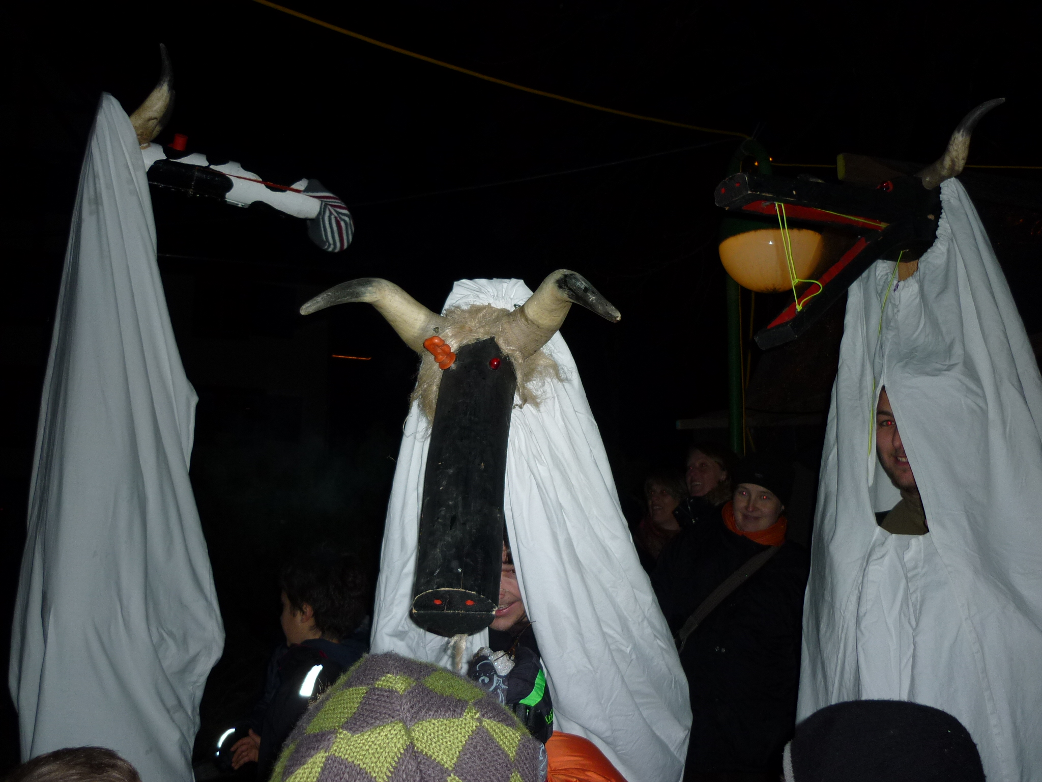 "Spräggele", old custom in Ottenbach ZH, Switzerland